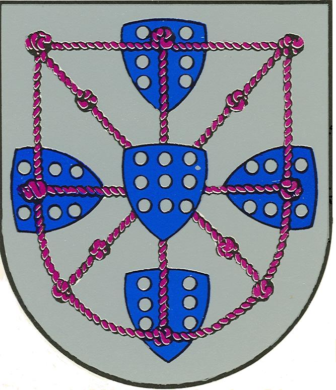 Coat of arms of the Eça family